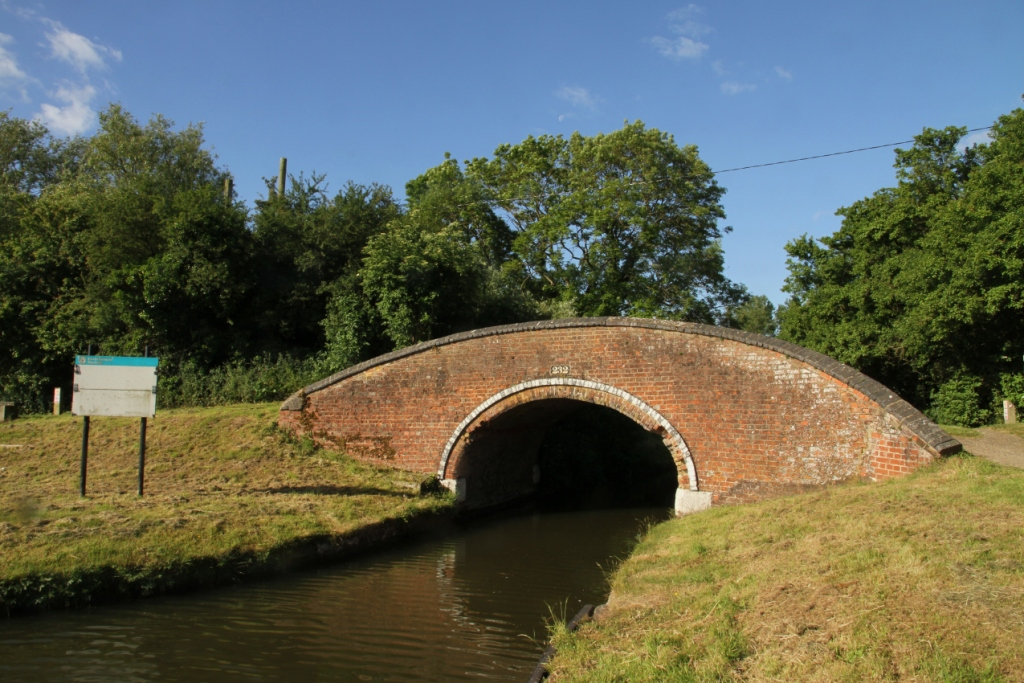 Oxford Canal bridge 232, carrying the towpath over Duke's Cut in Oxfordshire